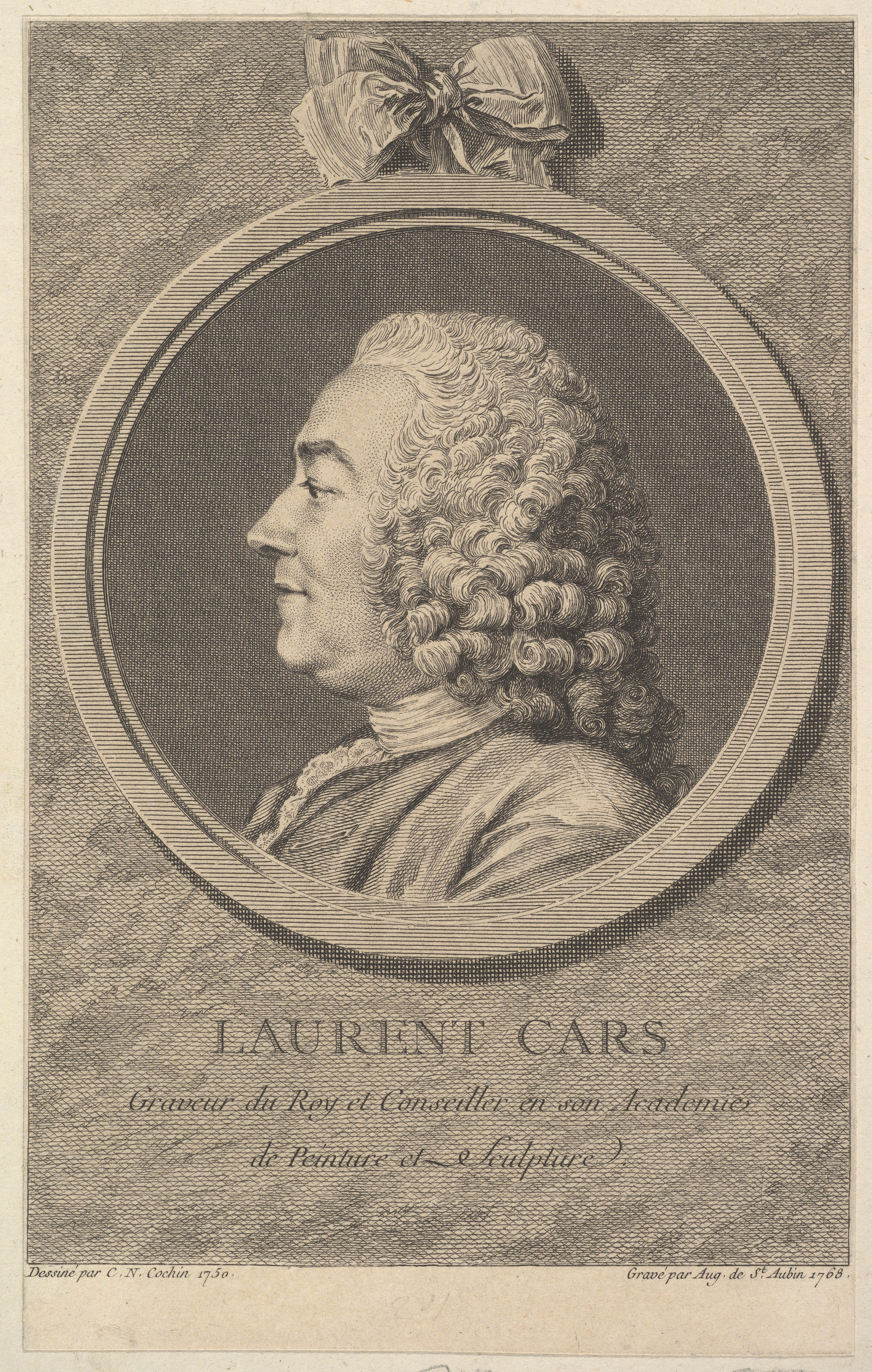 Print; Prints